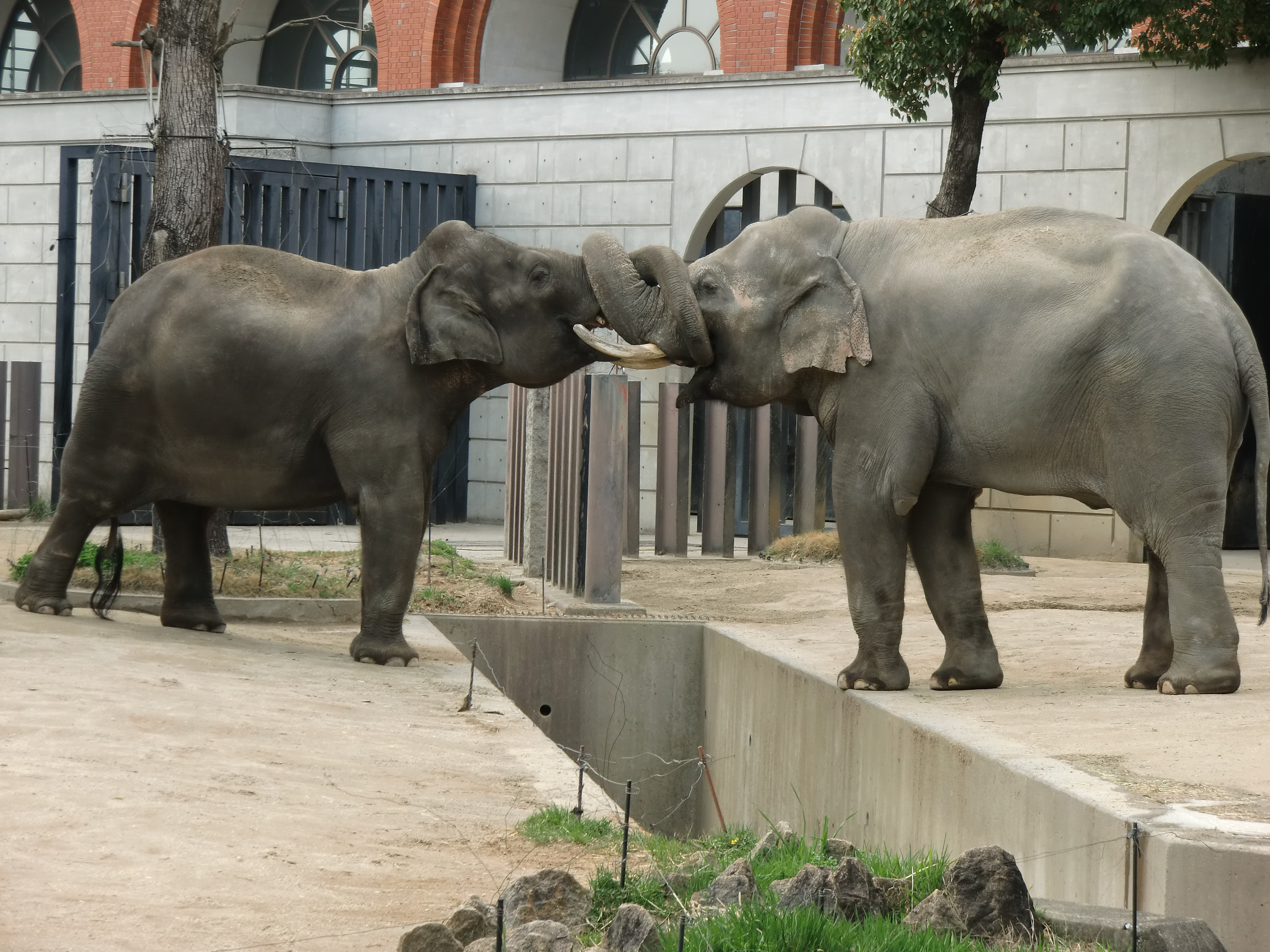 Elephas maximus indicus (Zoorasia,Yokohama,Japan)